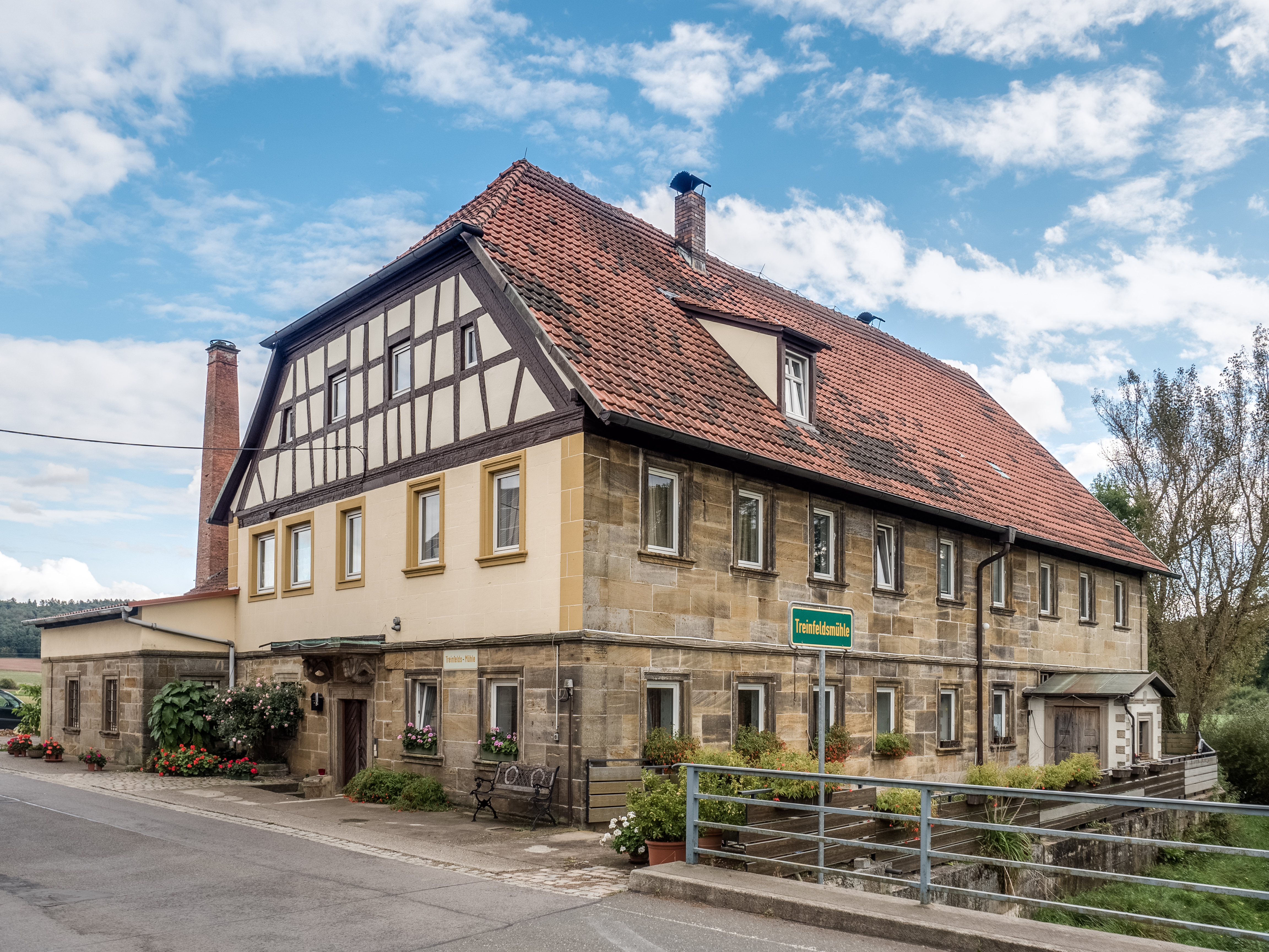 Building of a watermill near Rentweinsdorf